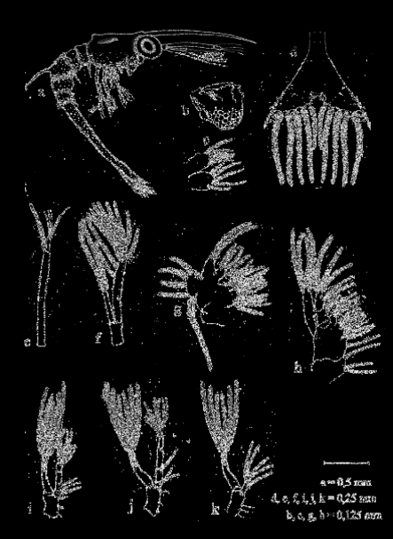 zoea of Stenopodidea